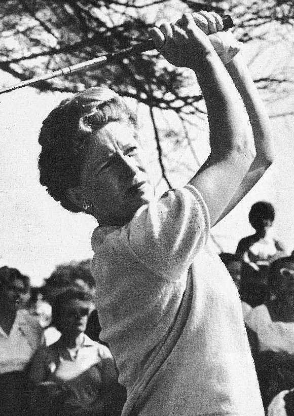 Marilynn Smith (born April 13, 1929) is an American former professional golfer. She was one of the thirteen founders of the LPGA in 1950. pic in 1964 at Awapuni